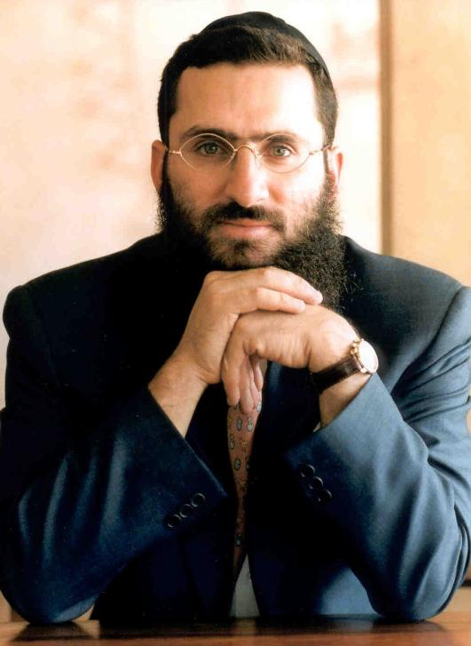 Rabbi Shmuley Boteach, founder of the L'Chaim Society